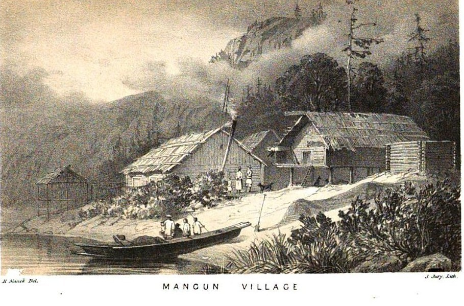 Ulchi (Mangun) village - Amur basin.